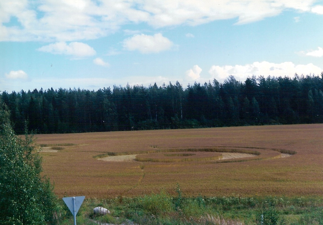 Crop circle